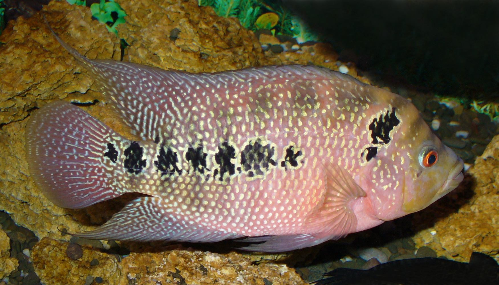 Amphilophus trimaculatus Cichlid